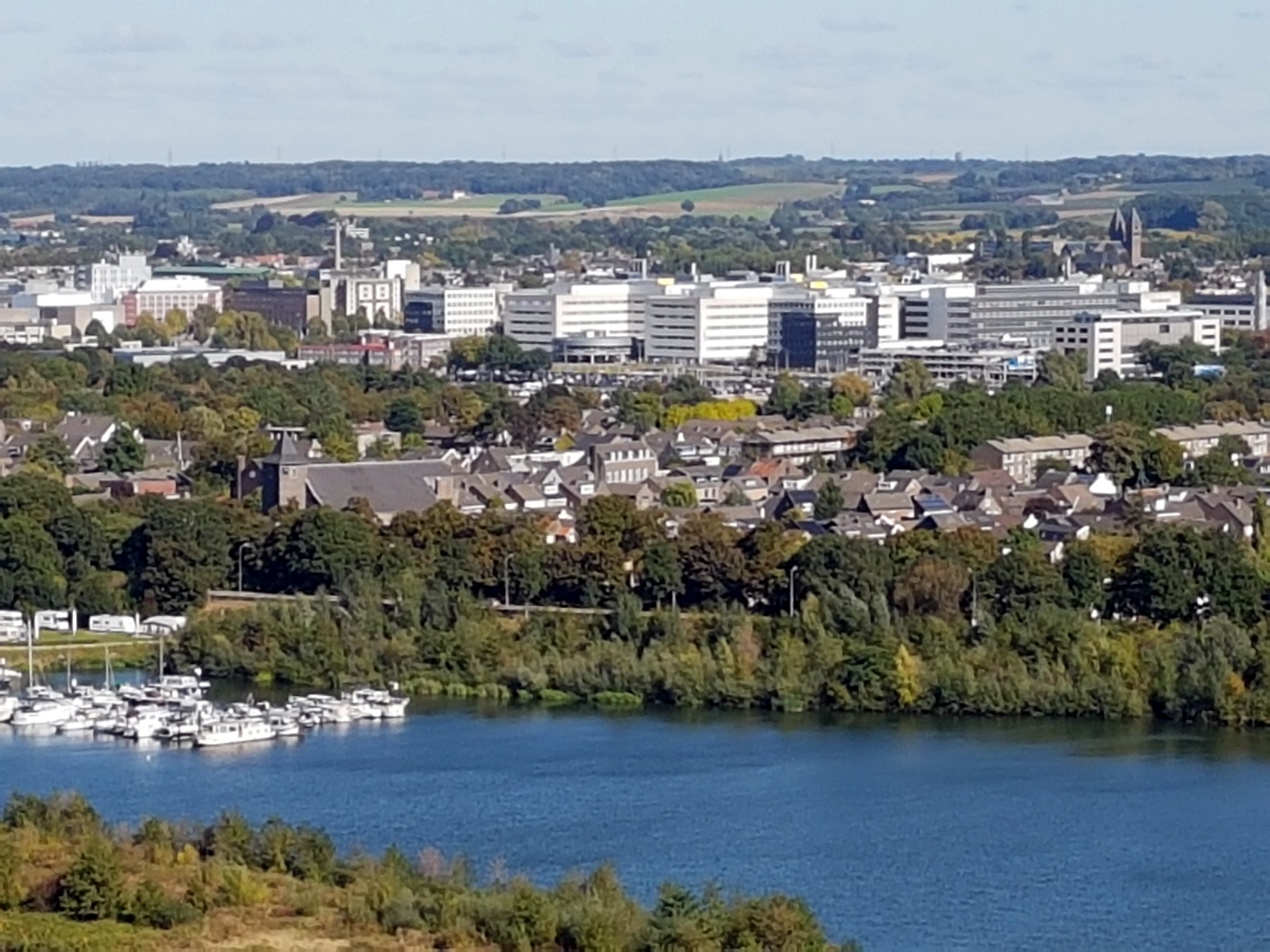 View towards the northeast from the ruined keep of Lichtenberg Castle on Mount Saint Peter in Maastricht, the Netherlands. In the foreground the yacht harbour and village of Heugem. In the background the university hospital of Maastricht.